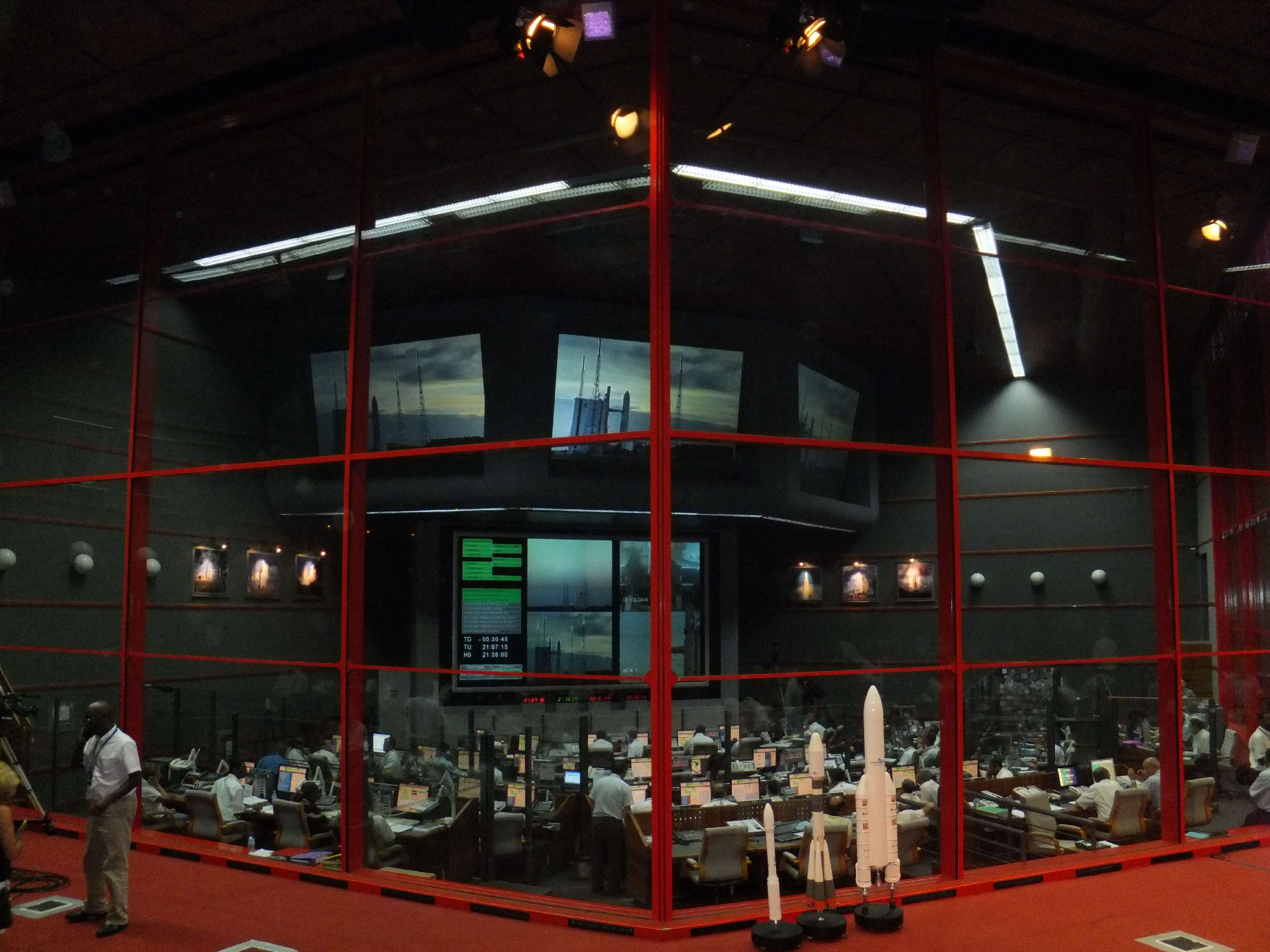 Guiana Space Center control center